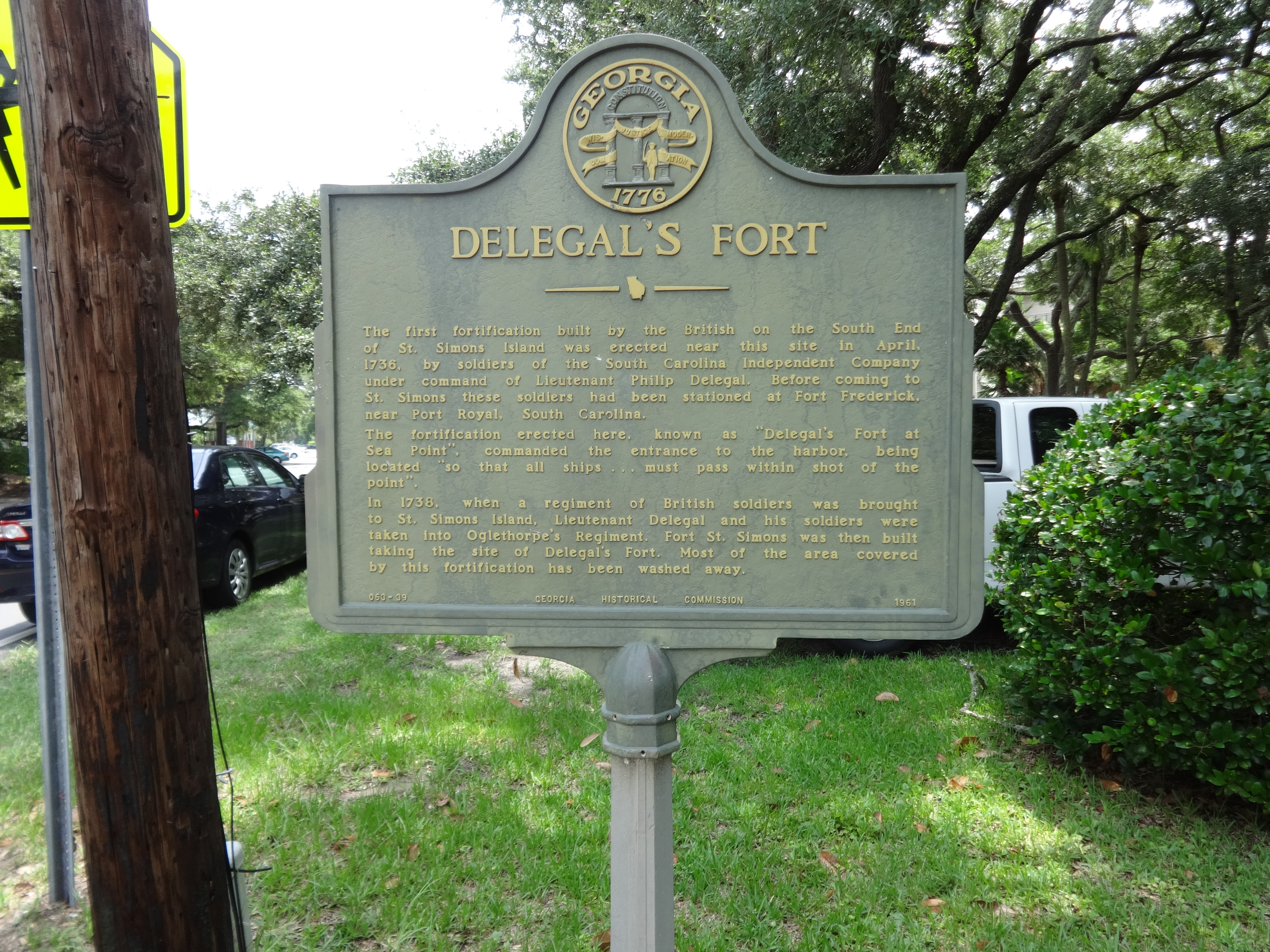 St. Simons, Glynn County, Georgia